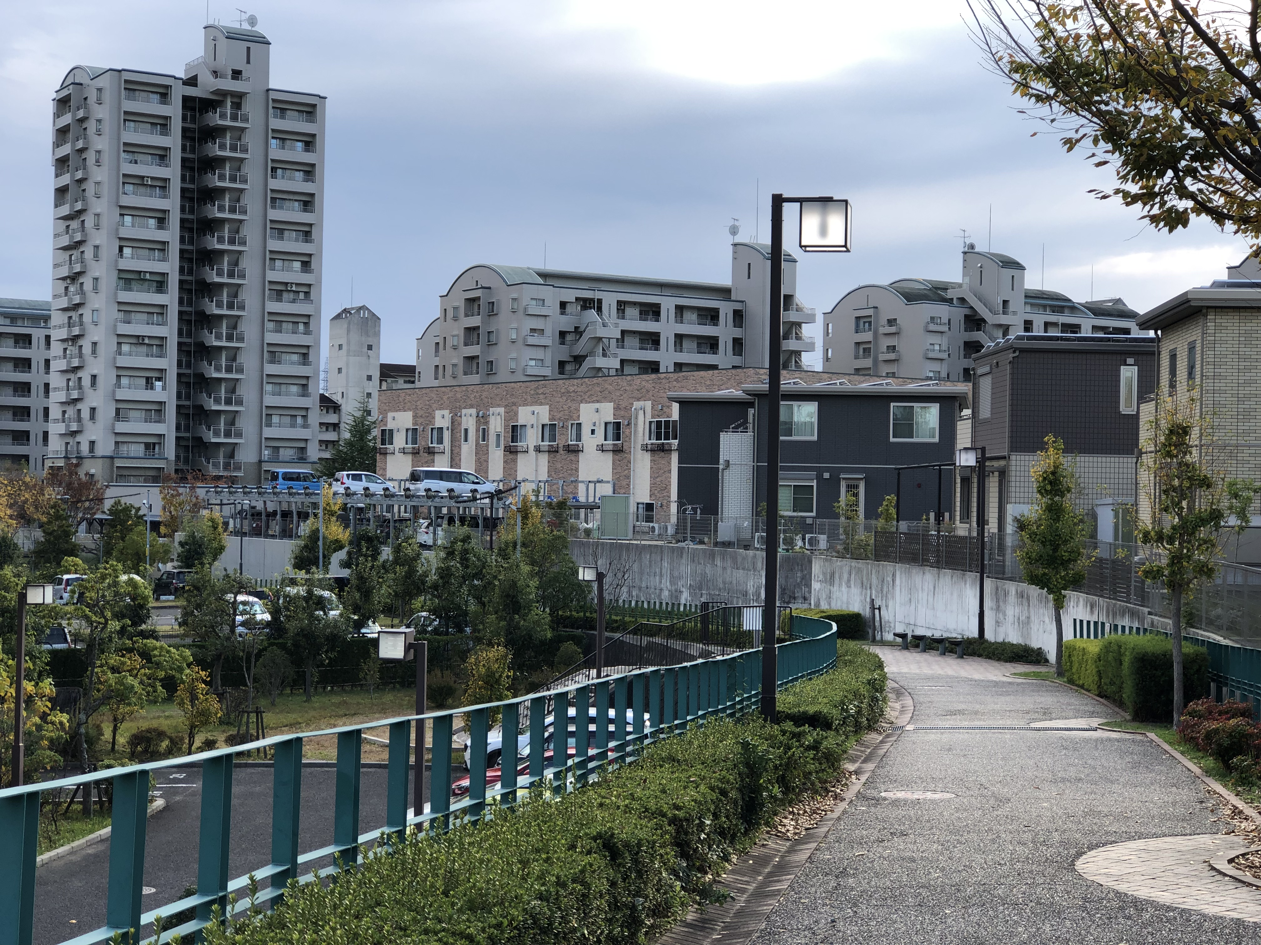 Tokadai Chuo Park